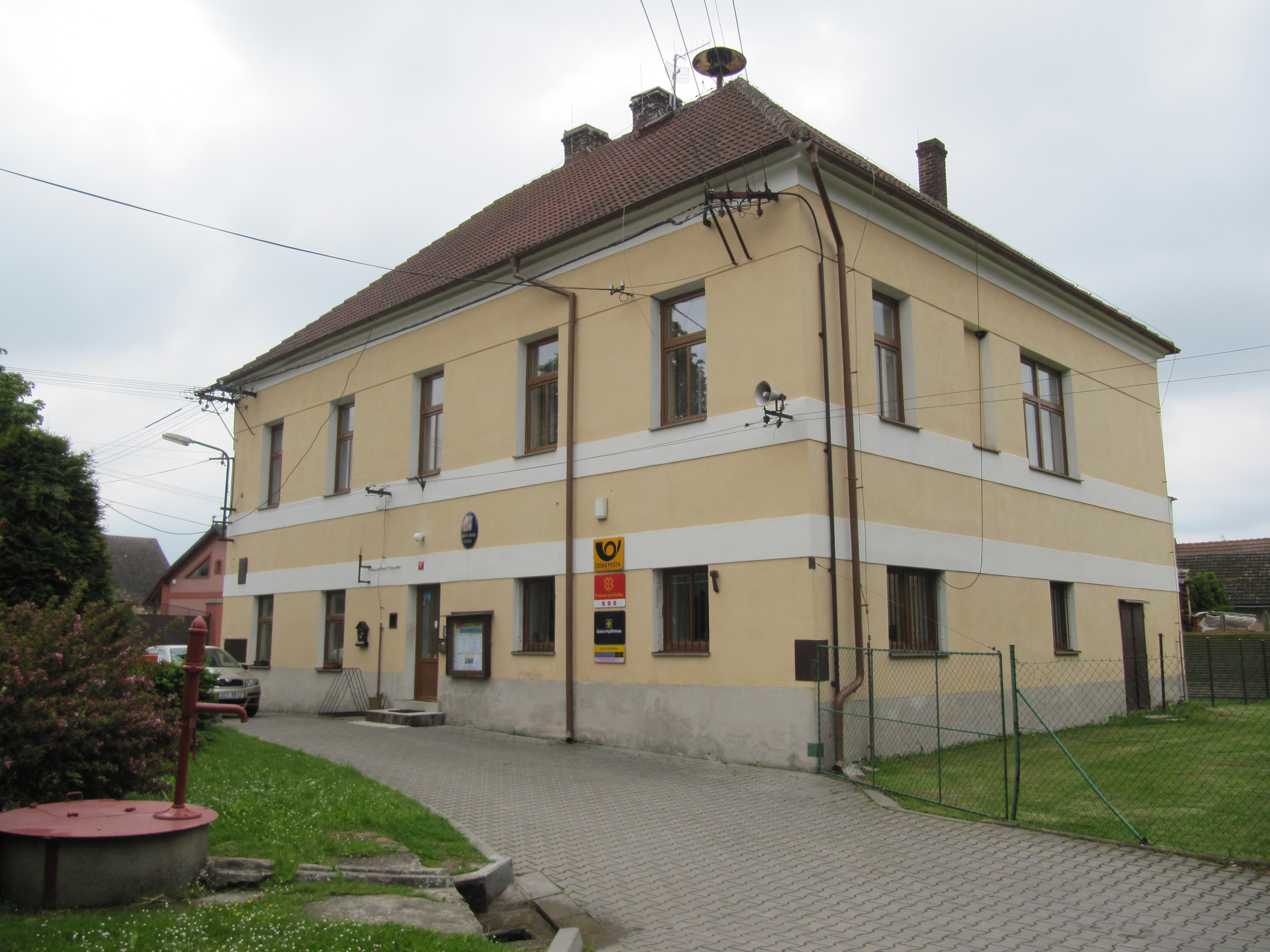 Oleška, Prague-East District, Czech Republic. Municipal office.